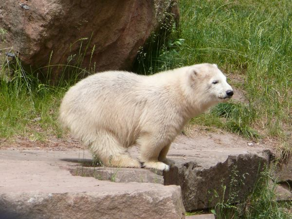 Polar bear Flocke (six months old)